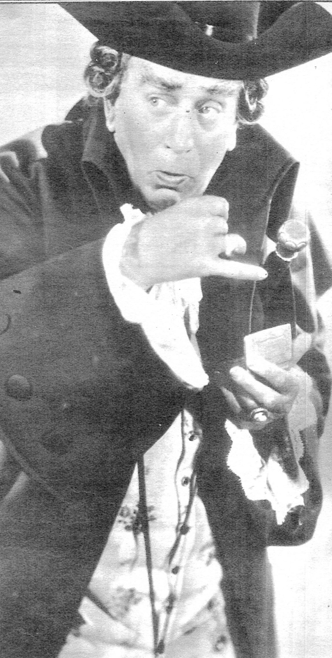 Armando Falconi, come è apparso nel "Don Pasquale" (Mastrocinque 1940)